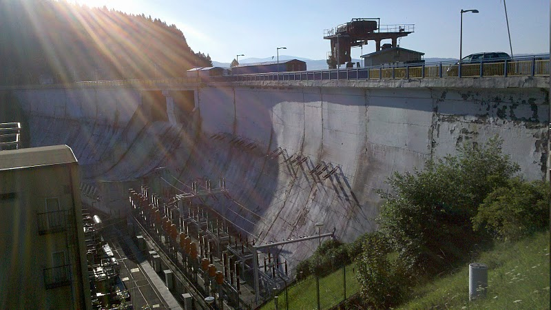 Orava reservoir - dam